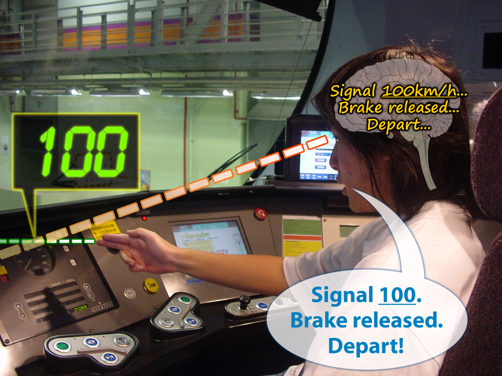 Pointing and calling requires the co-action and co-reaction among the operator's brain, eye, hand, and mouth. Besides, ear is also included.